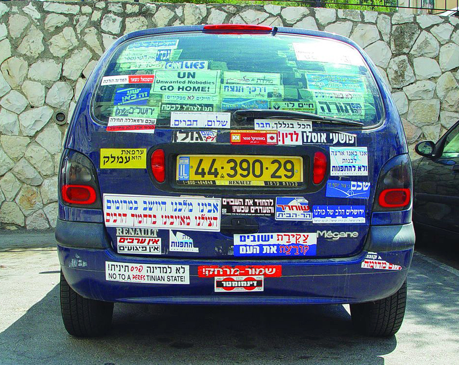 Political stickers on Israeli car (2002) להחזיר את השבויים והנעדרים עכשיו : urges the return of Israeli war-captives and missing soldiers אבינו מלכנו היושב במרומים הצילנו מאויבינו ברחמיך הרבים : pleads merciful GOD to save us from our enemies